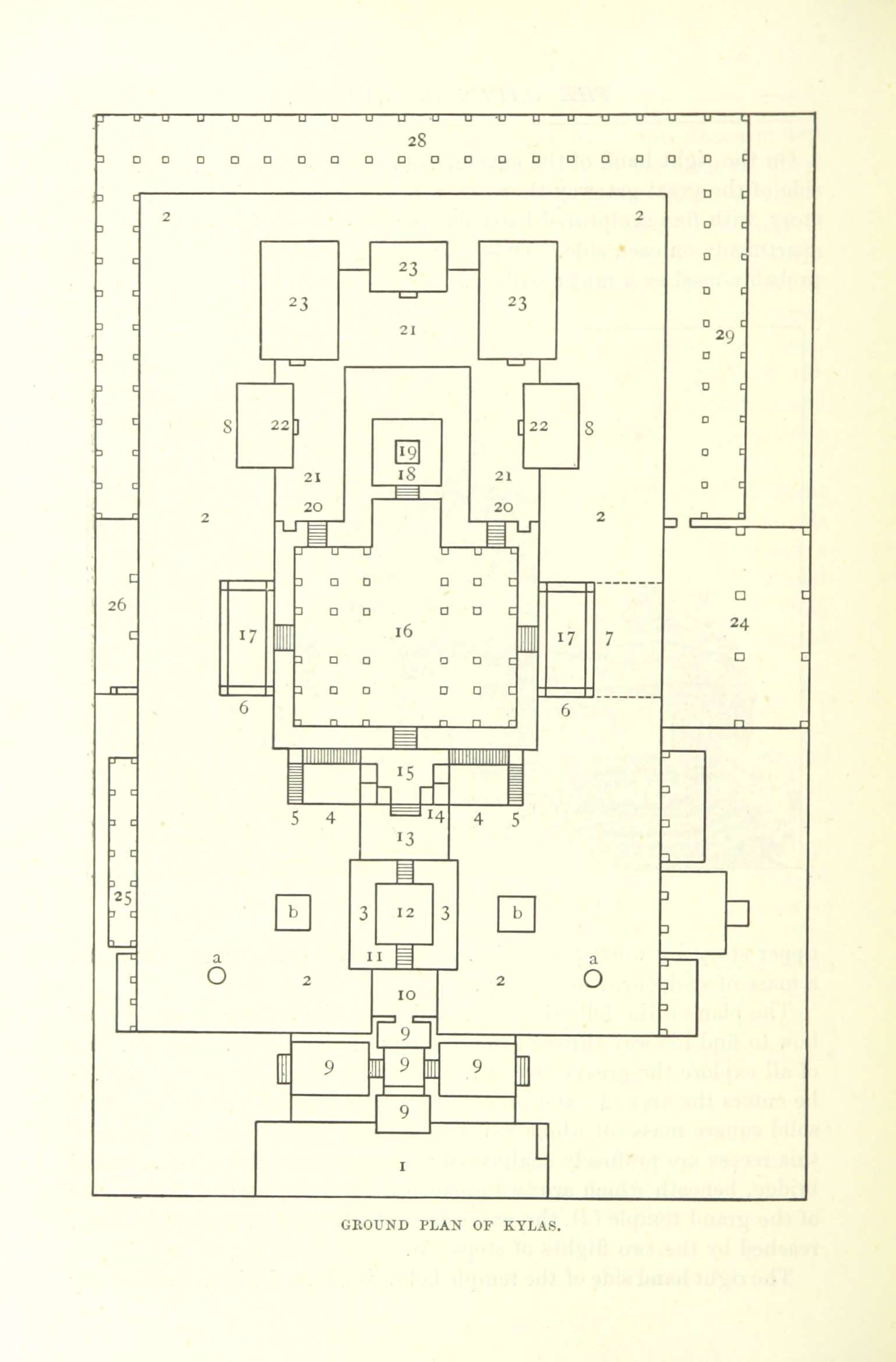 Image taken from: Title: "Picturesque India. A handbook for European travellers, etc. [With maps.]" Author: CAINE, William Sproston. Shelfmark: "British Library HMNTS 010057.ee.7.", "British Library OC ORW.1986.a.2996" Page: 456 Place of Publishing: London Date of Publishing: 1890 Publisher: G. Routledge & Sons Issuance: monographic Identifier: 000567709 Note: The colours, contrast and appearance of these illustrations are unlikely to be true to life. They are derived from scanned images that have been enhanced for machine interpretation and have been altered from their originals. If you wish to purchase a high quality copy of the page that this image is drawn from, please order it here. Please note that you will need to enter details from the above list - such as the shelfmark, the page, the book's volume and so on - when filling out your order. Explore: Find this item in the British Library catalogue, 'Explore'. Open the page in the British Library's itemViewer (page: 456) Download the PDF for this book Click here to see all the illustrations in this book and click here to browse other illustrations published in books in the same year. Please click on the tags shown on the right-hand side for other ways to browse the illustrations.